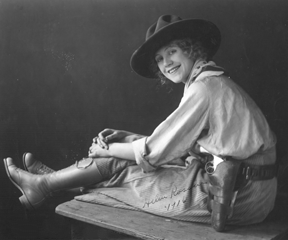 Image of American silent film actress Helene Rosson c. 1916 from silent film archives. Autographed "Helene Rosson 1916"